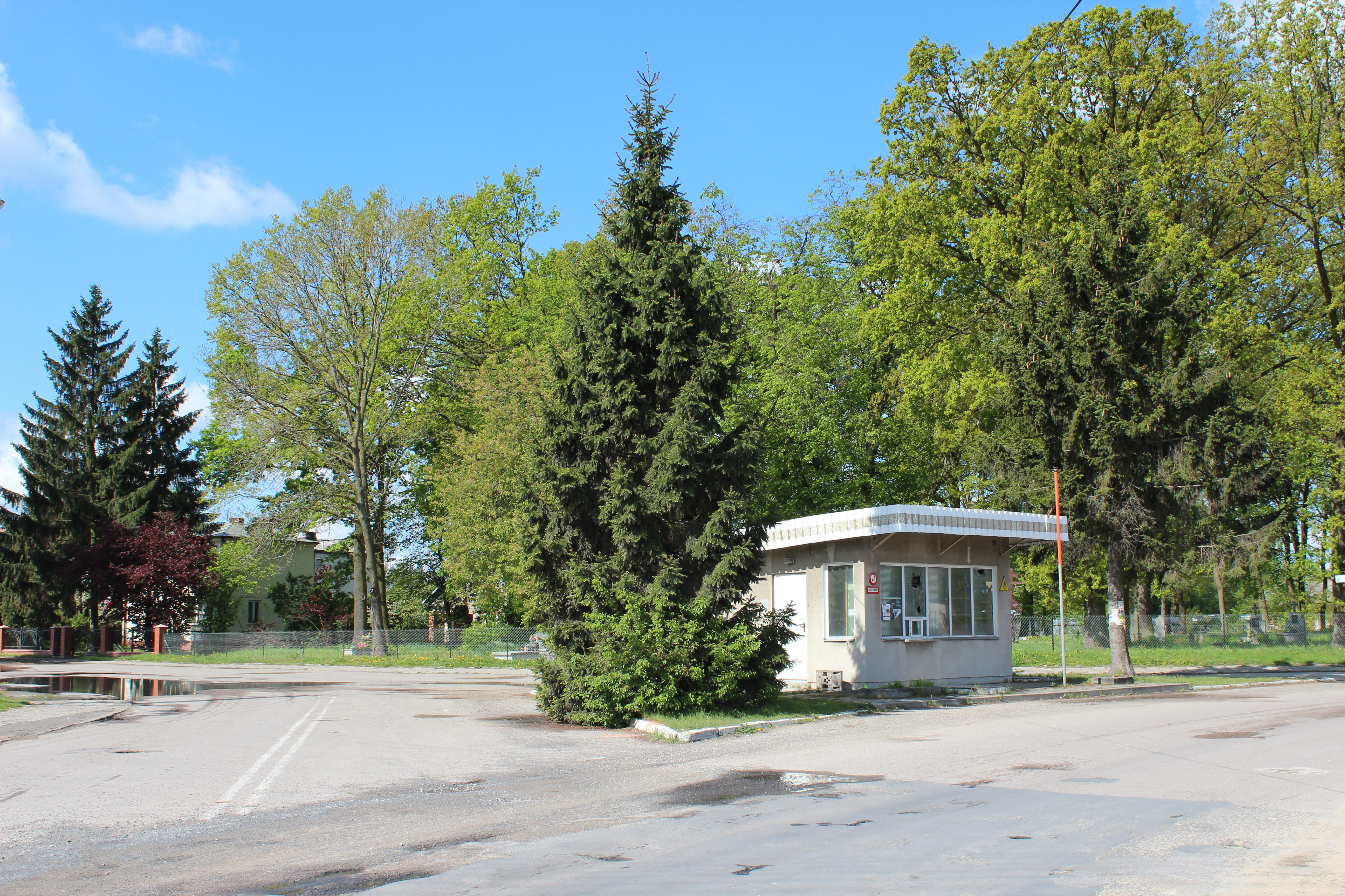 Cyców - old filling station